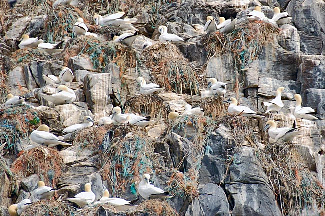 Northern Gannet at the norwegian bird-island Runde